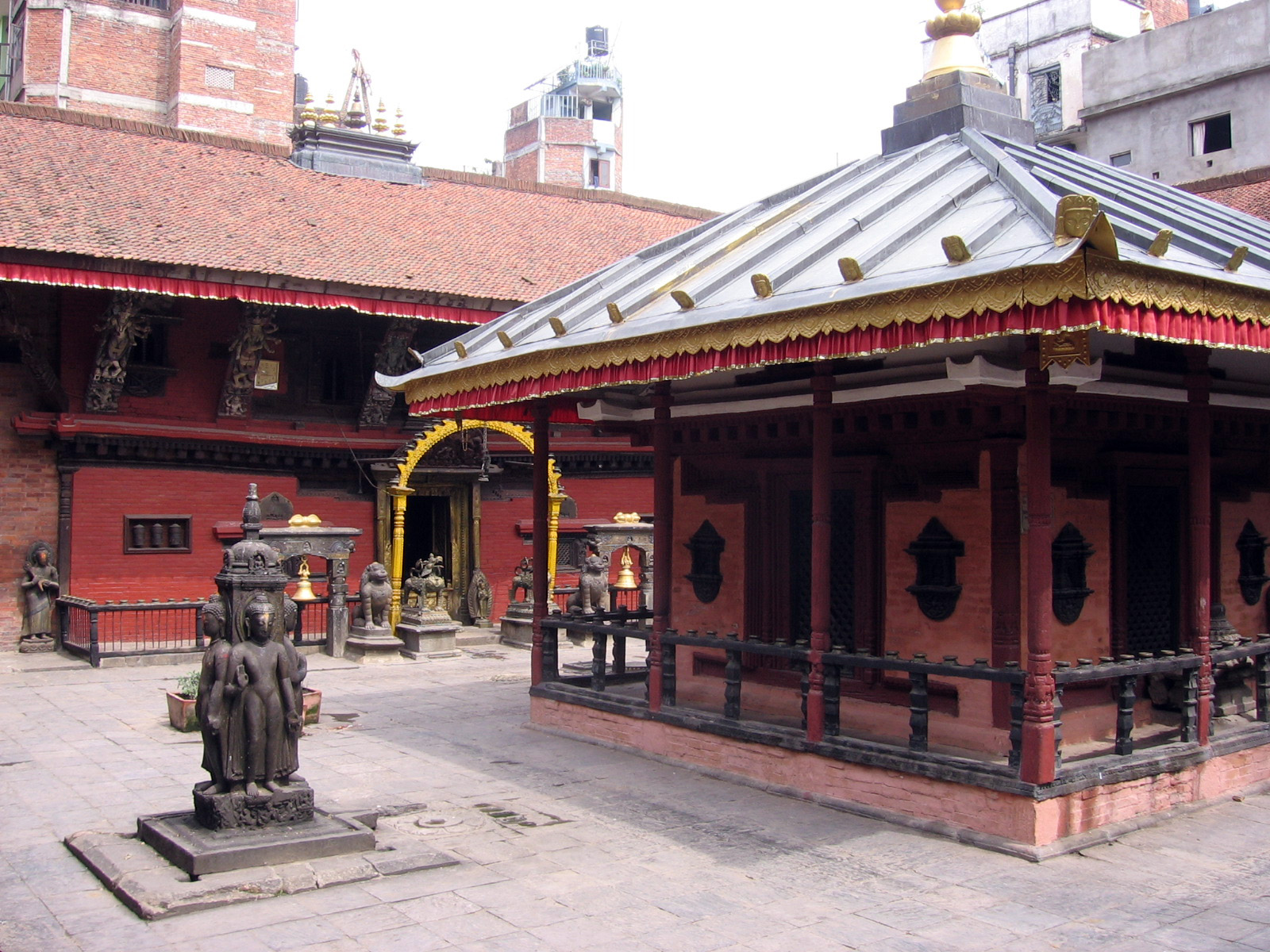 Itum Bahal, a 14th century Buddhist courtyard in Kathmandu, Nepal.